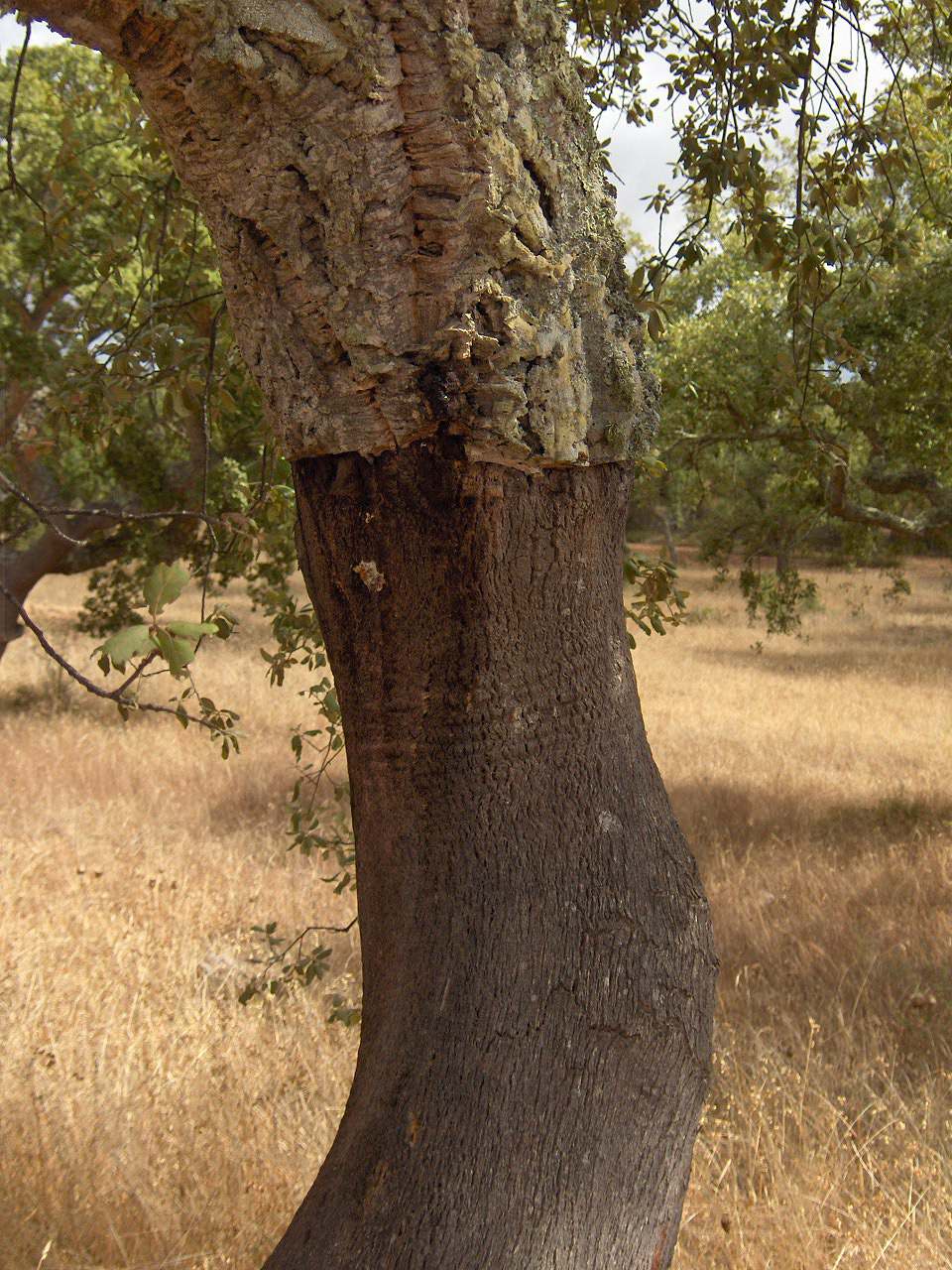 Cork oak (Quercus suber) - bark